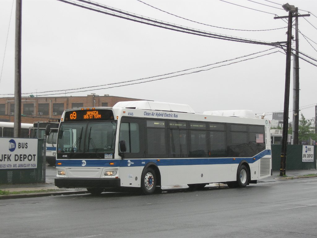 MTA Bus #4146 lays over outside of the JFK Depot (named such after the airport outside of which it is located) before entering service for the first time.